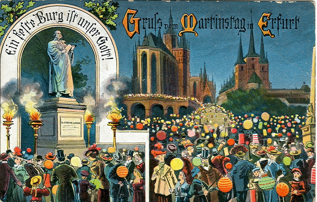 Postcard, dated 10.11.1913. Title: "Greetings from Martin´s day in Erfurt".